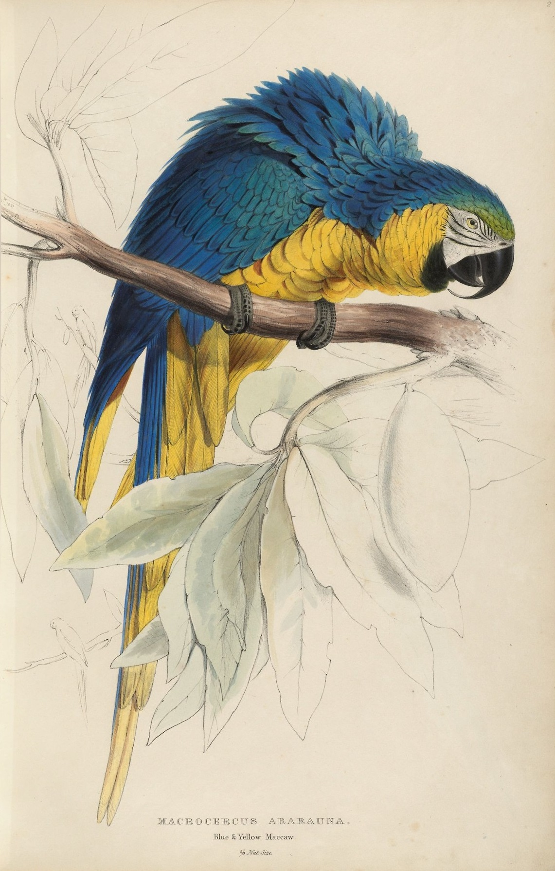 Macrocercus ararauna (blue and yellow macaw) by Edward Lear (1812-1888) from Illustrations of the family of Psittacidœ, or Parrots, 1832. Typ 805L.32 (A), Houghton Library, Harvard University